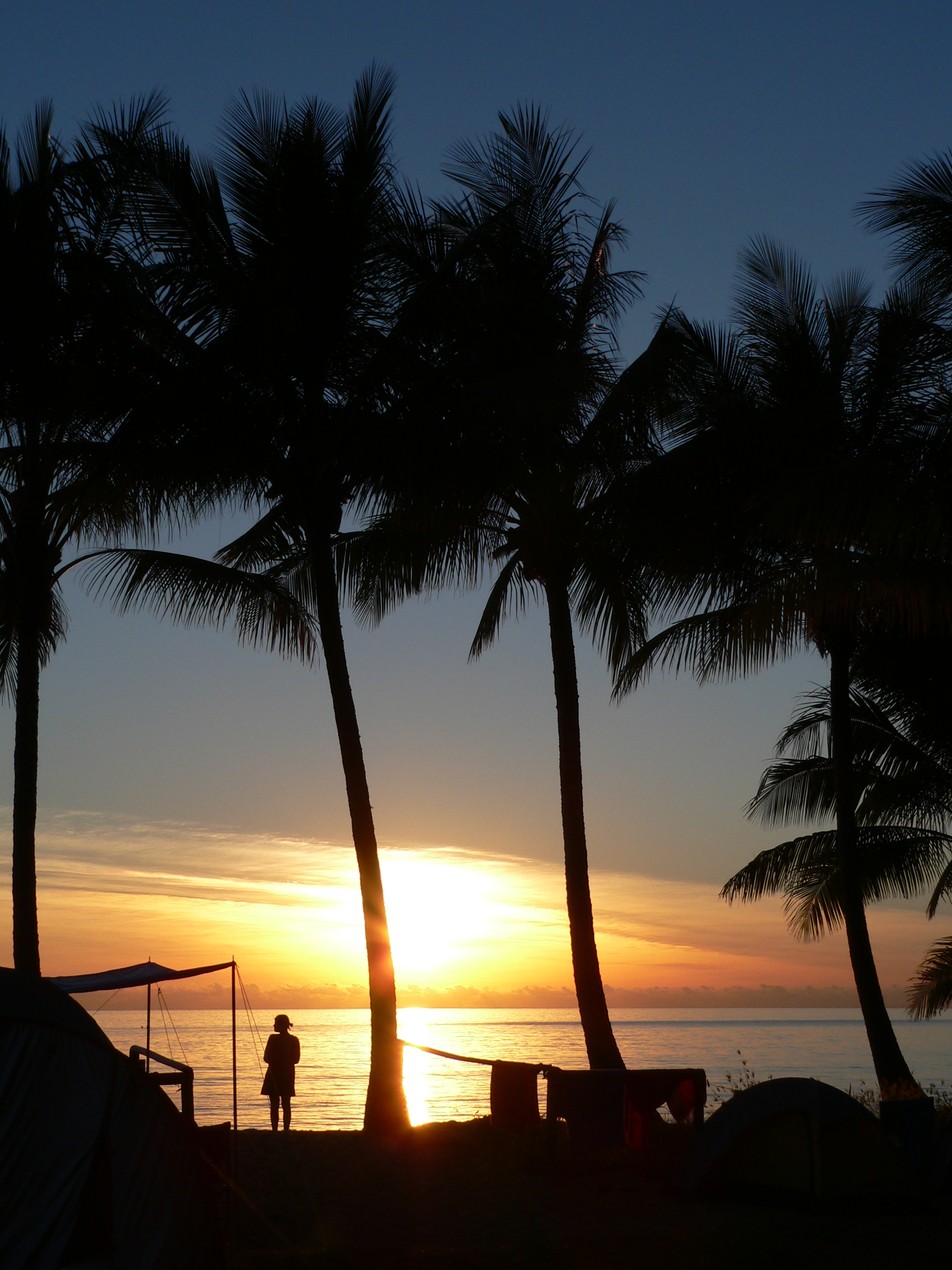 Ellis Beach Queensland Australia - Sunrise Camping